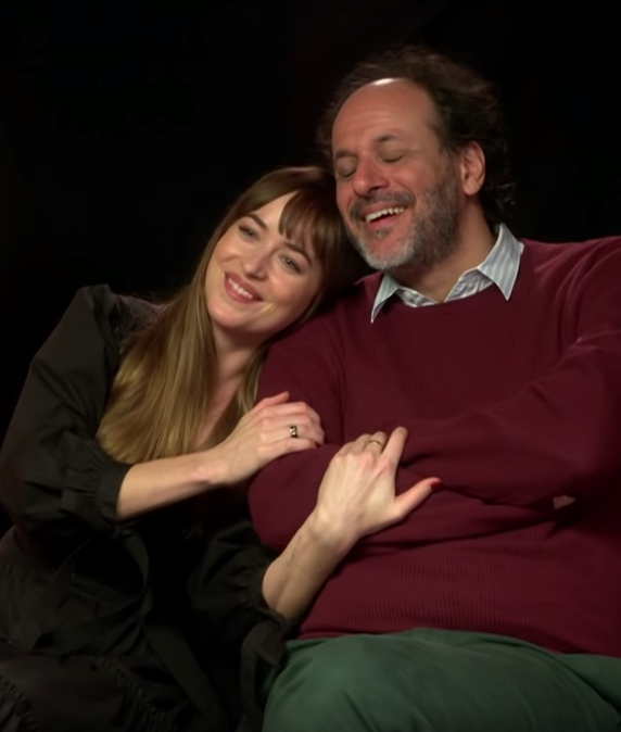 The cast of creepy new horror remake Suspiria, Dakota Johnson and Mia Goth, and director Luca Guadgnino, reveal exactly how they made the film’s moments of horror SO terrifying, Luca’s plans for Dakota Johnson to star in his Call Me By Your Name sequel, and which actor Dakota Johnson would recast as Ana in Fifty Shades for a sequel.